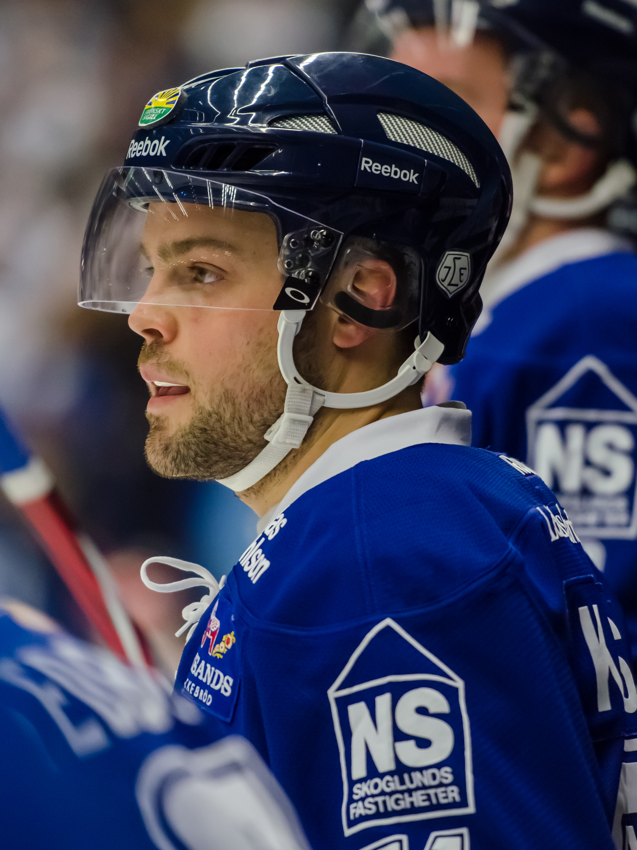 Kevin Kapstad playing for Leksands IF in Hockeyallsvenskan (Swedish second league) against Mora IK 2012-12-29.